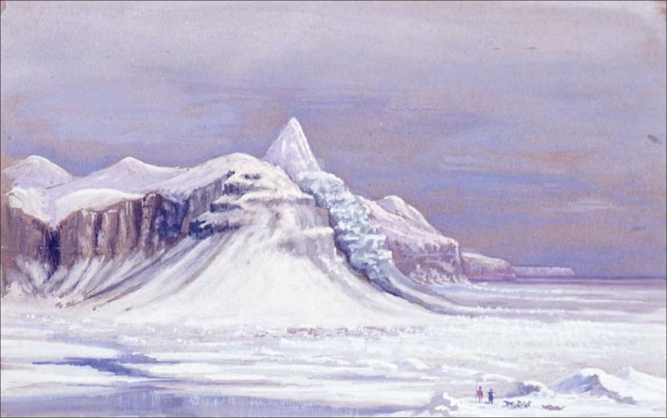 Church’s Peak, Arctic Regions (painting by Isaac Hayes, 1860, watercolor on paper)